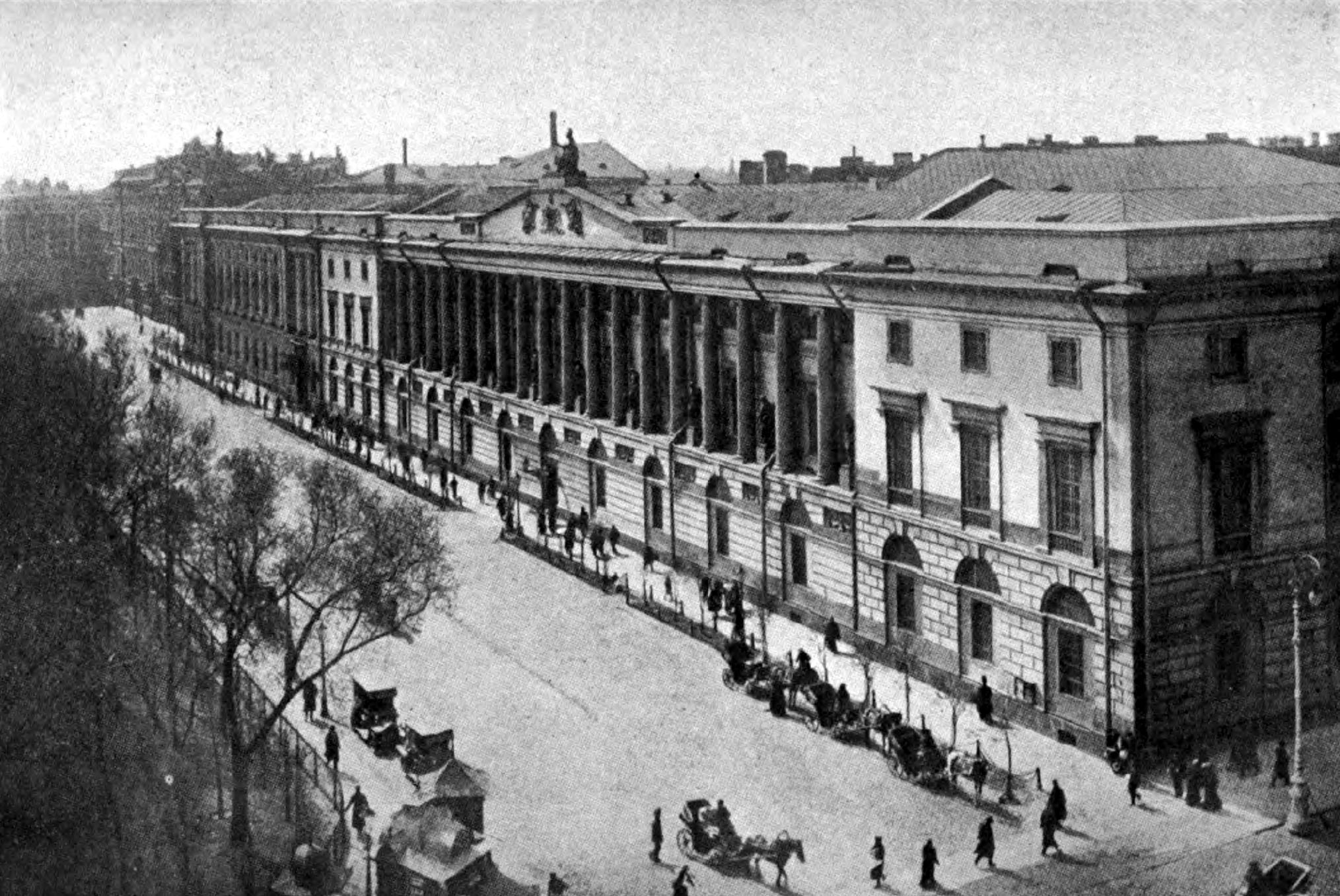 Photograph of the Russian National Library in Saint Petersburg c. 1920